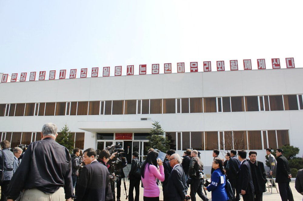 Outside the General Satellite Command and Control Center